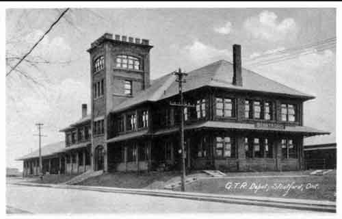 Postcard showing the then new Grand Trunk station in Stratford, Ontario, with a tower (that has since been removed).